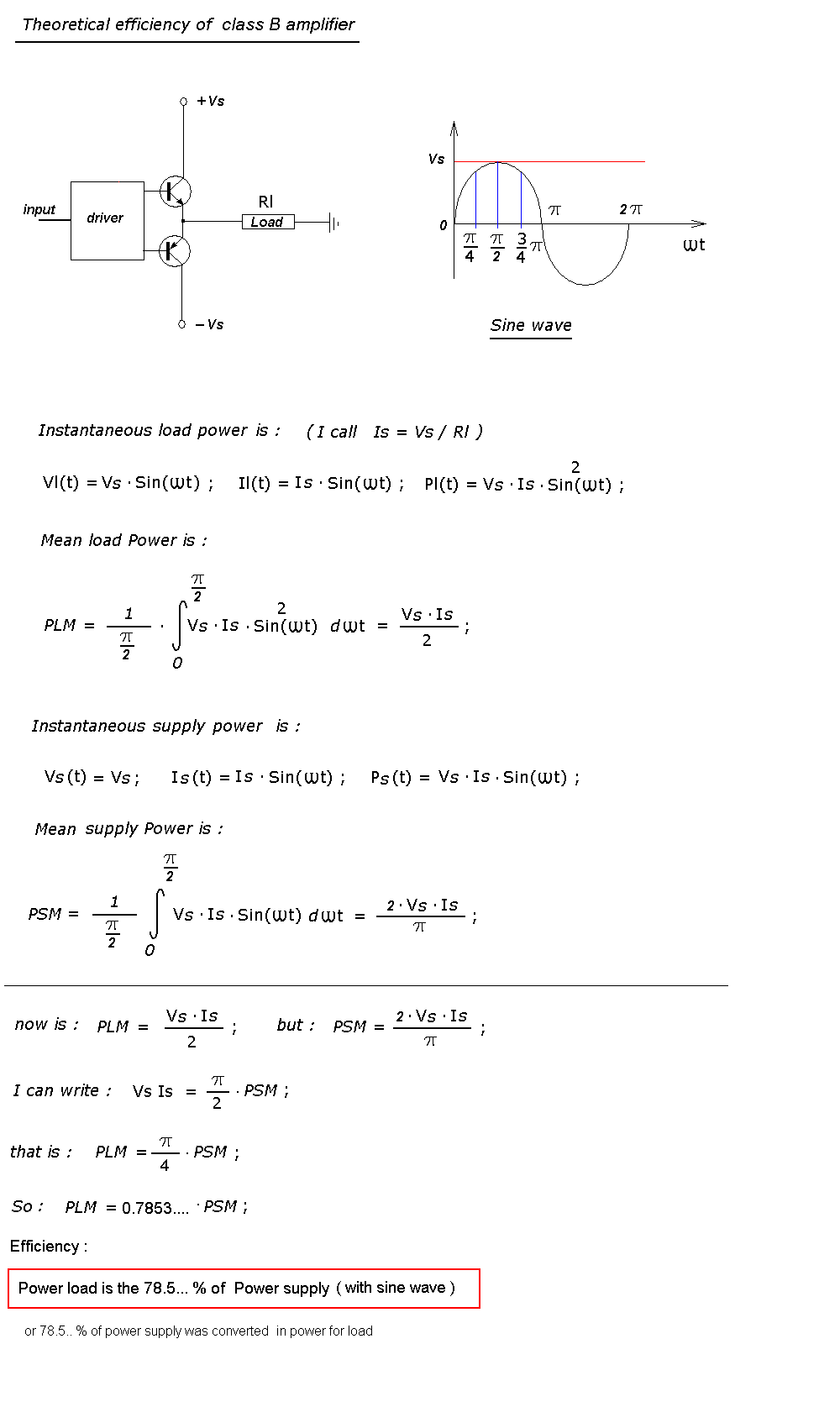 Demonstration of Theoretical efficiency of Class B amplifier